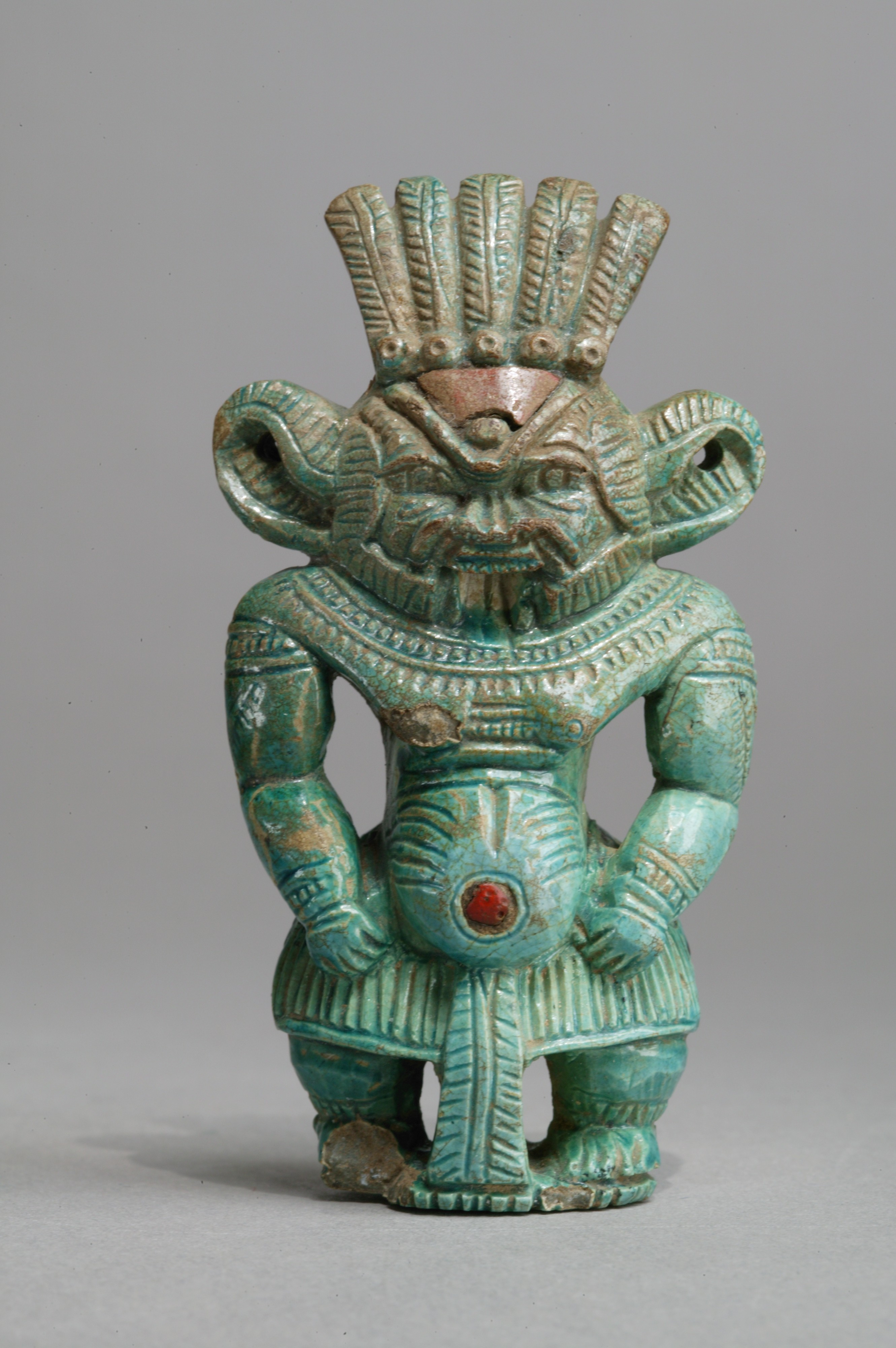 Amulet, Bes